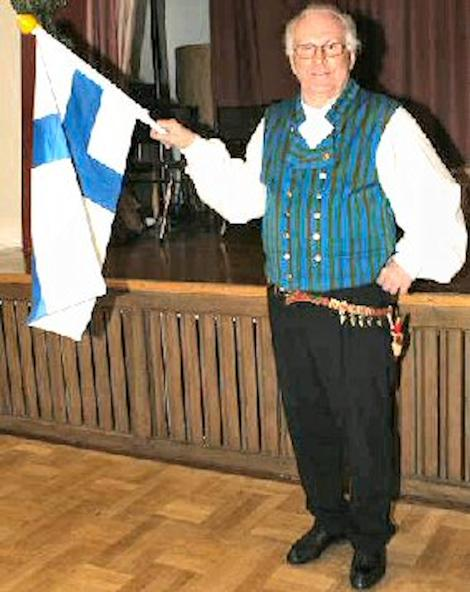 Jouko Kärki alias Anders Rixer i folkdräkt på Finlands självständighetsfest i Storfors 2007-12-06